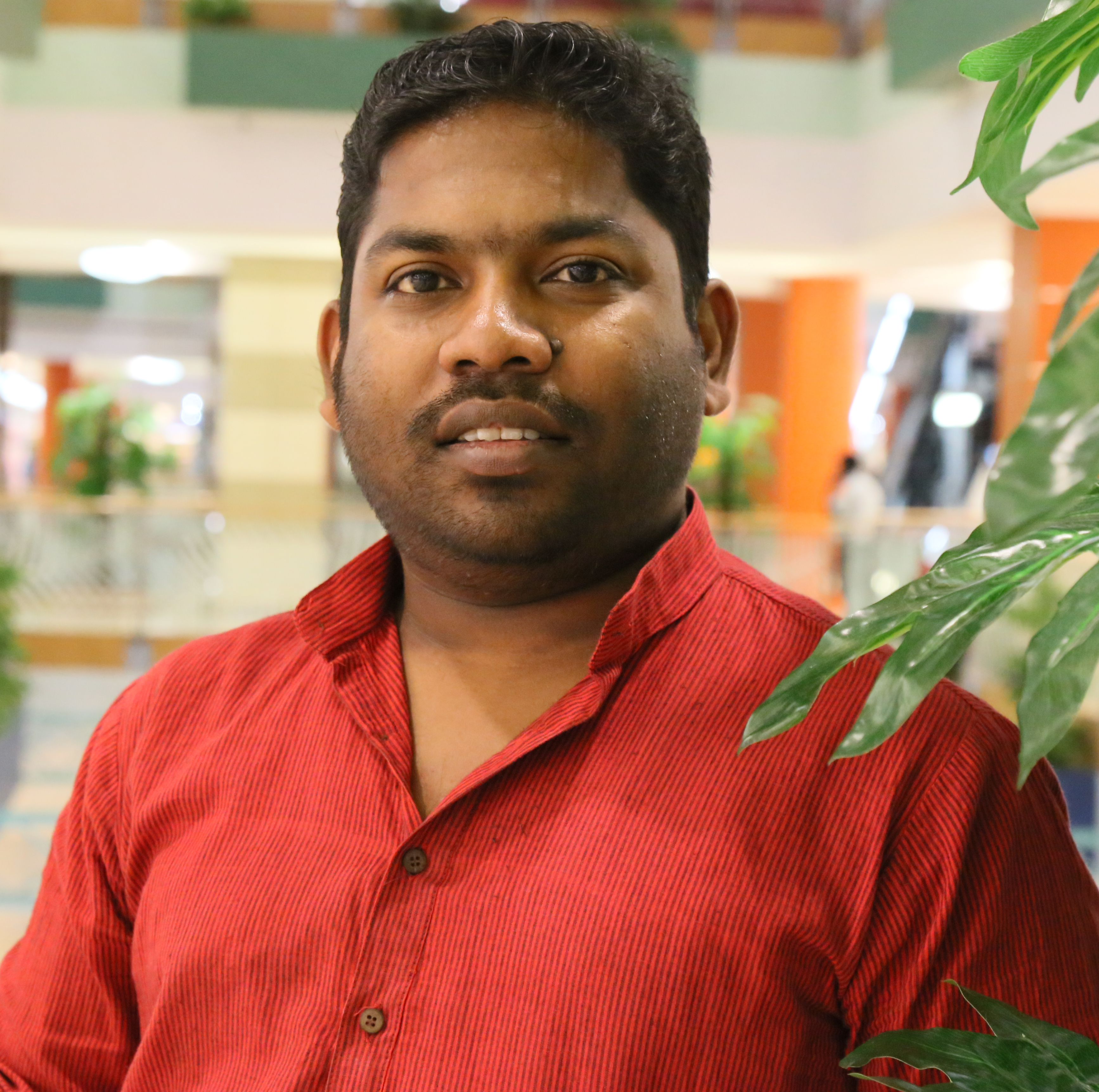 photo